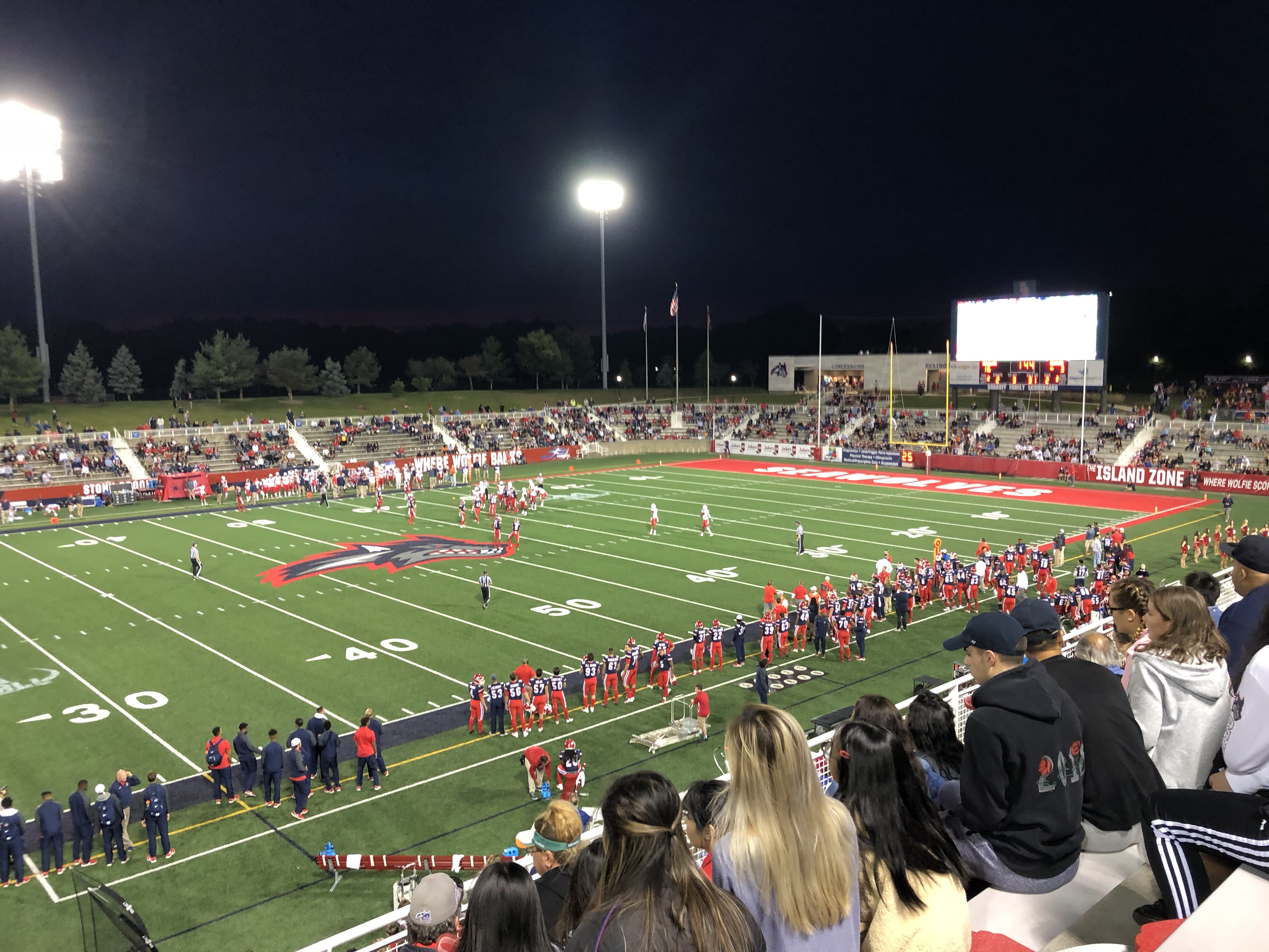 LaValle Stadium following the renovations and expansion